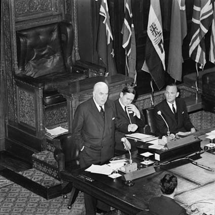 Prime Minister Robert Menzies and Minister for the Navy John Gorton at the Opening day of the First Consultative Meeting of the Antarctic Treaty in 1961